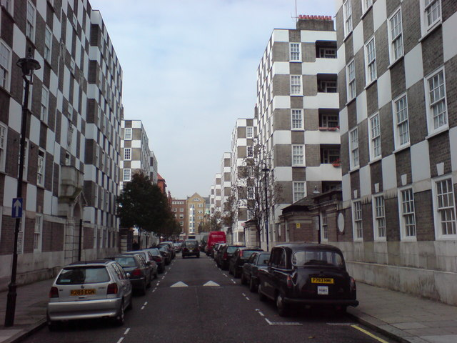 "Checkerboard Flats", Page Street, SW1 These flats are part of the Grosvenor and Regency Estate.